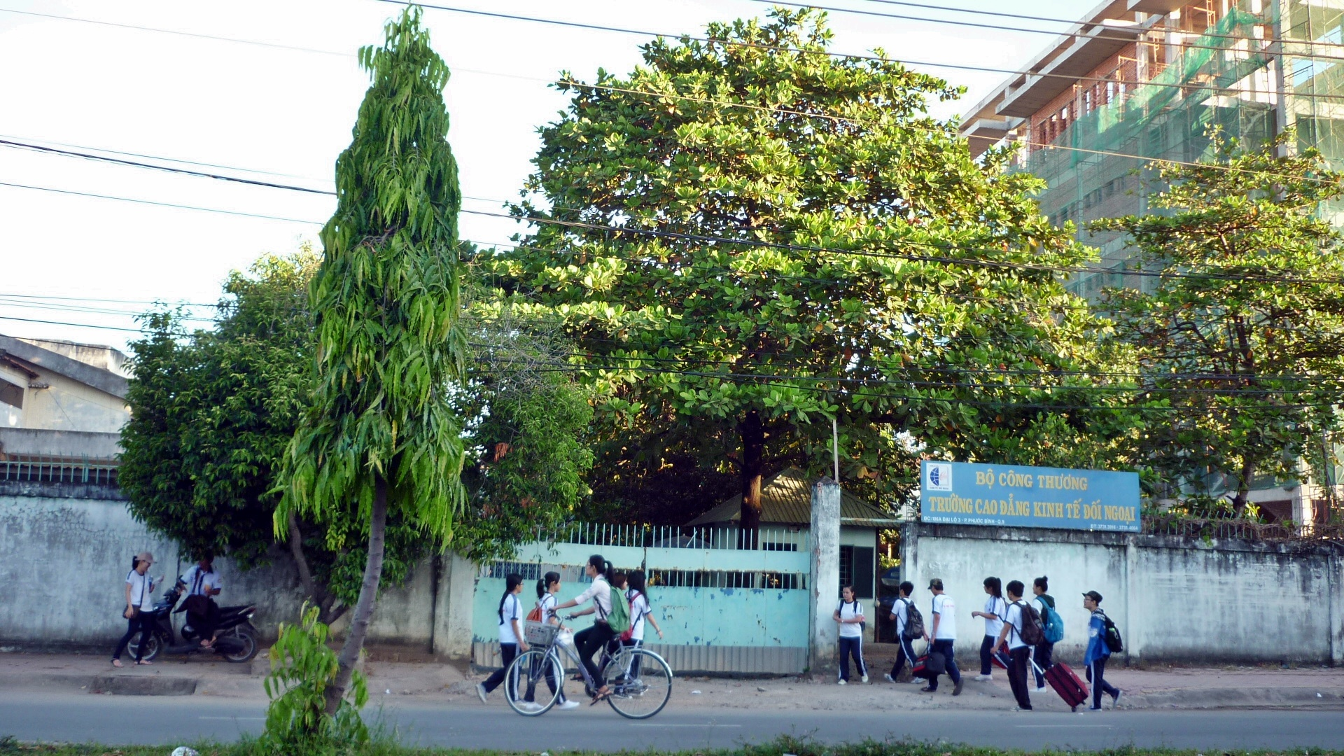 College of Foreign Trade